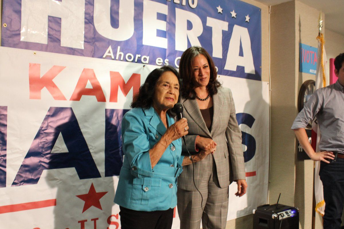 Kamala Harris